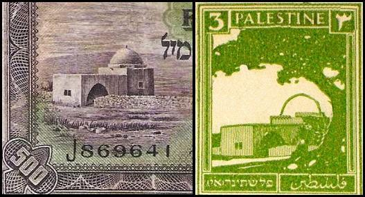 Left: 500 mil Palestine Mandate banknote. Right: Stamp from same era. Rachel's tomb appeared on the 500m. banknote and on 2m., 3m. and 10m. stamps of Mandate Palestine.